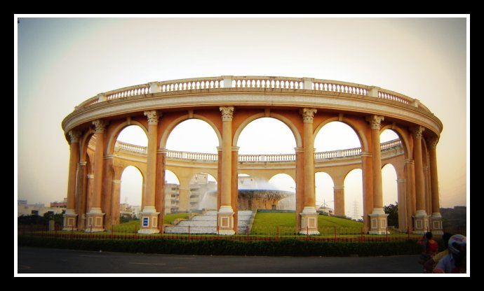 by SanDev Uploaded by user:nikkul